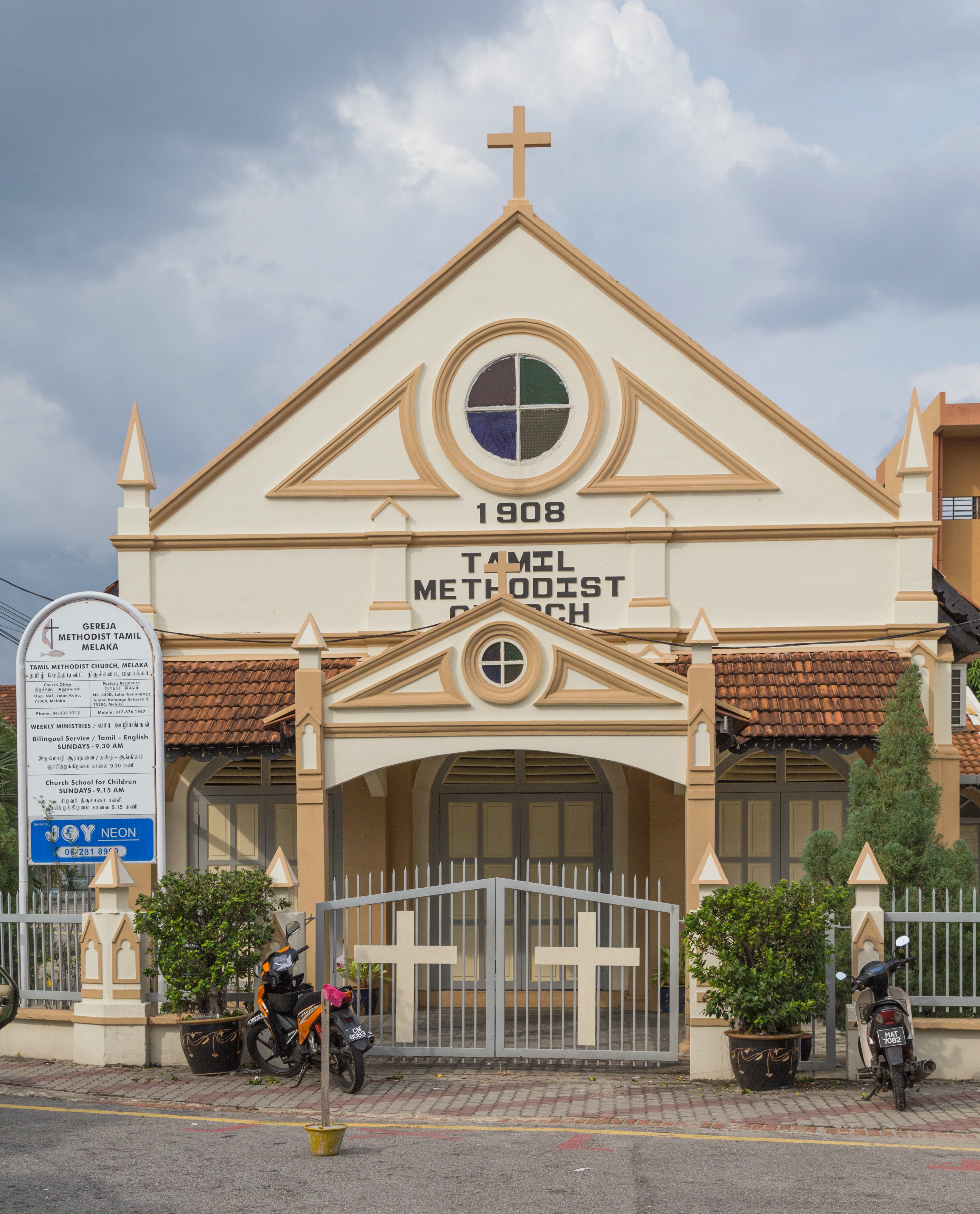 Tamil Methodist Church. Malacca City, Malacca, Malaysia.